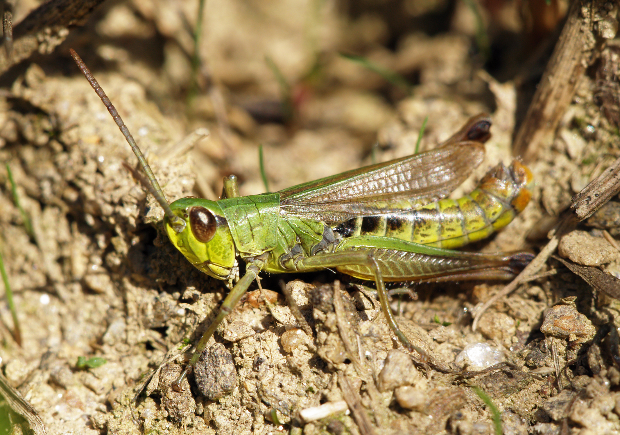 Meadow Grasshopper (Chorthippus parallelus), Chemnitz, Germany